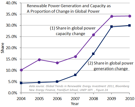 Renewable Power Generation and Capacity as a Proportion of Change in Global Power Supply data source: Global Trends in Renewable Energy Investment 2011, Bloomberg New Energy Finance, Frankfurt School, UNEP SEFI, Figure 24